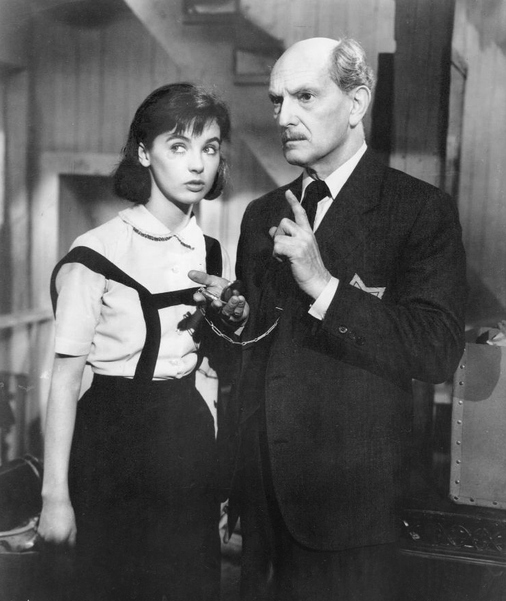 Millie Perkins and Joseph Schildkraut in The Diary of Anne Frank (1959) wire photo.